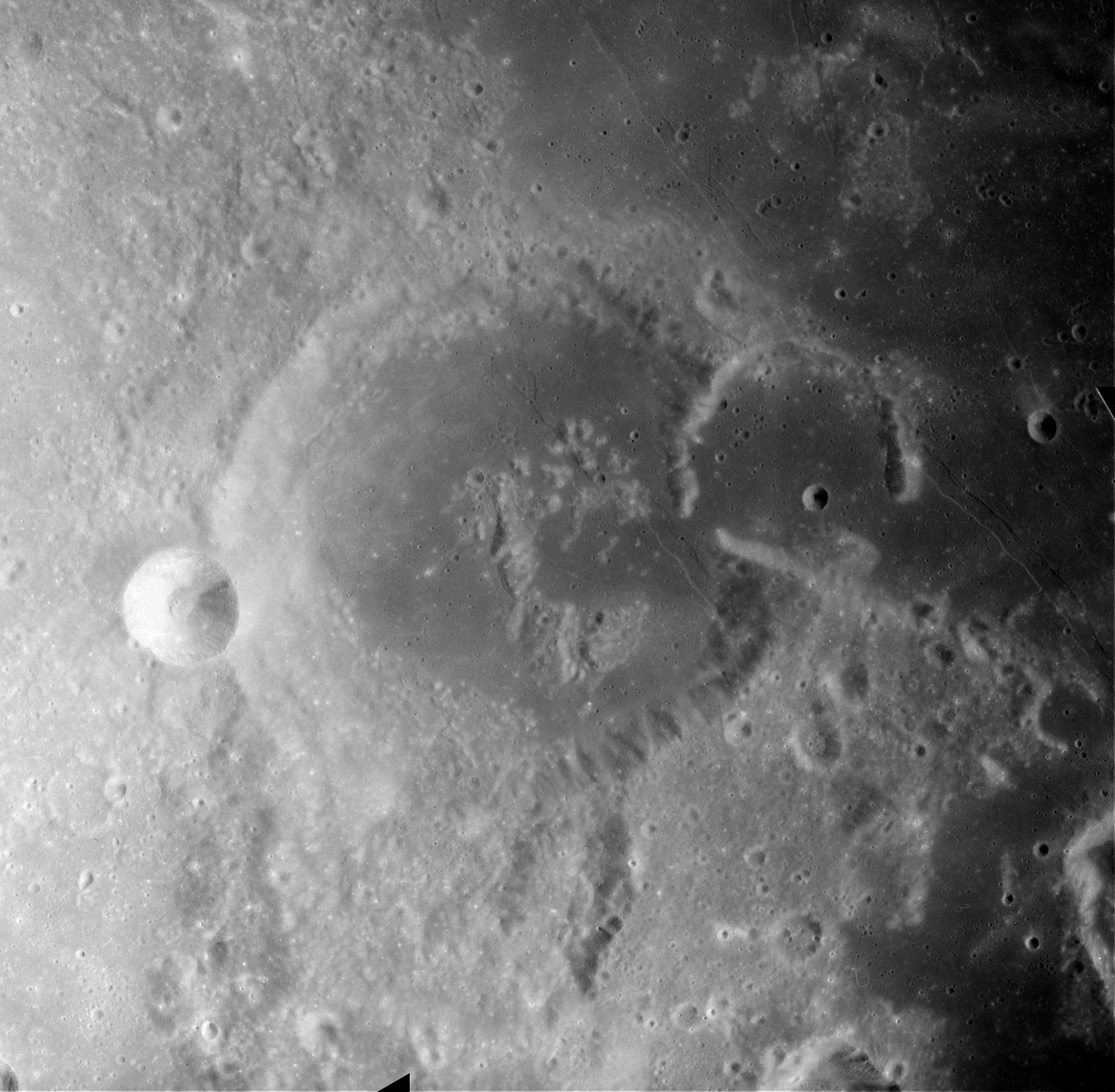 Image Apollo 16 AS16-M-420